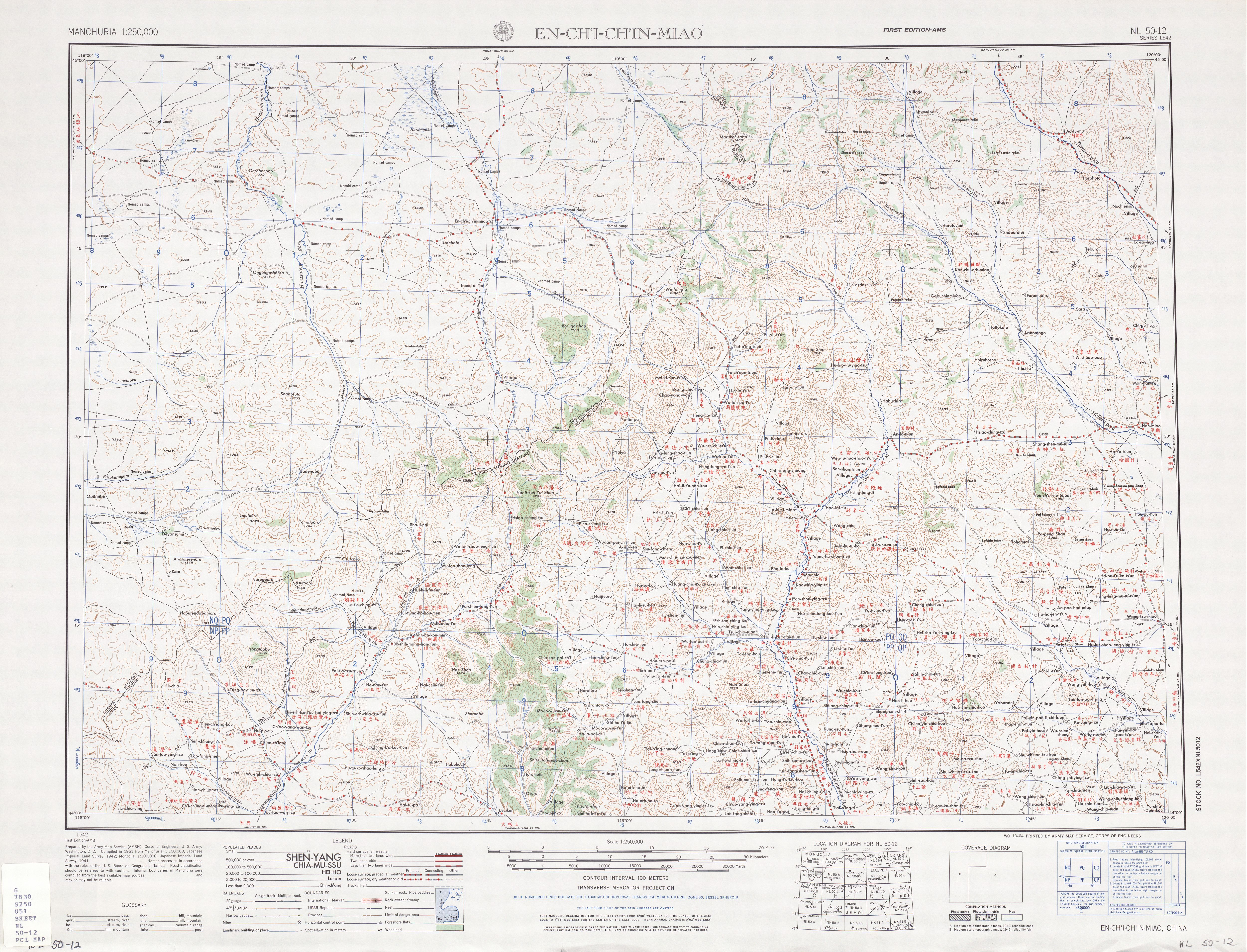 Manchuria AMS Topographic Maps